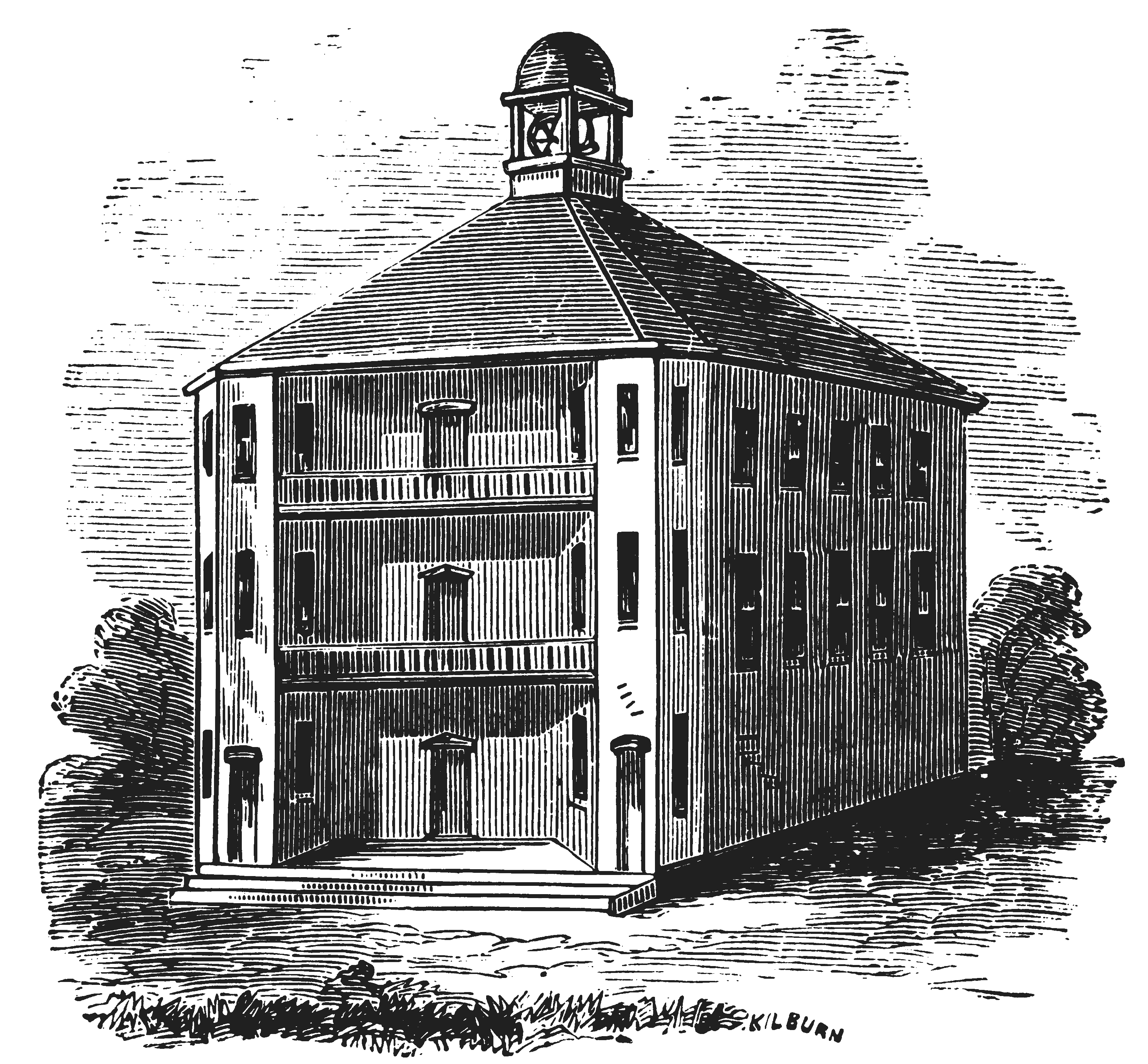 The first Vermont State House built at Montpelier, Vermont. c. 1808 wood engraving.